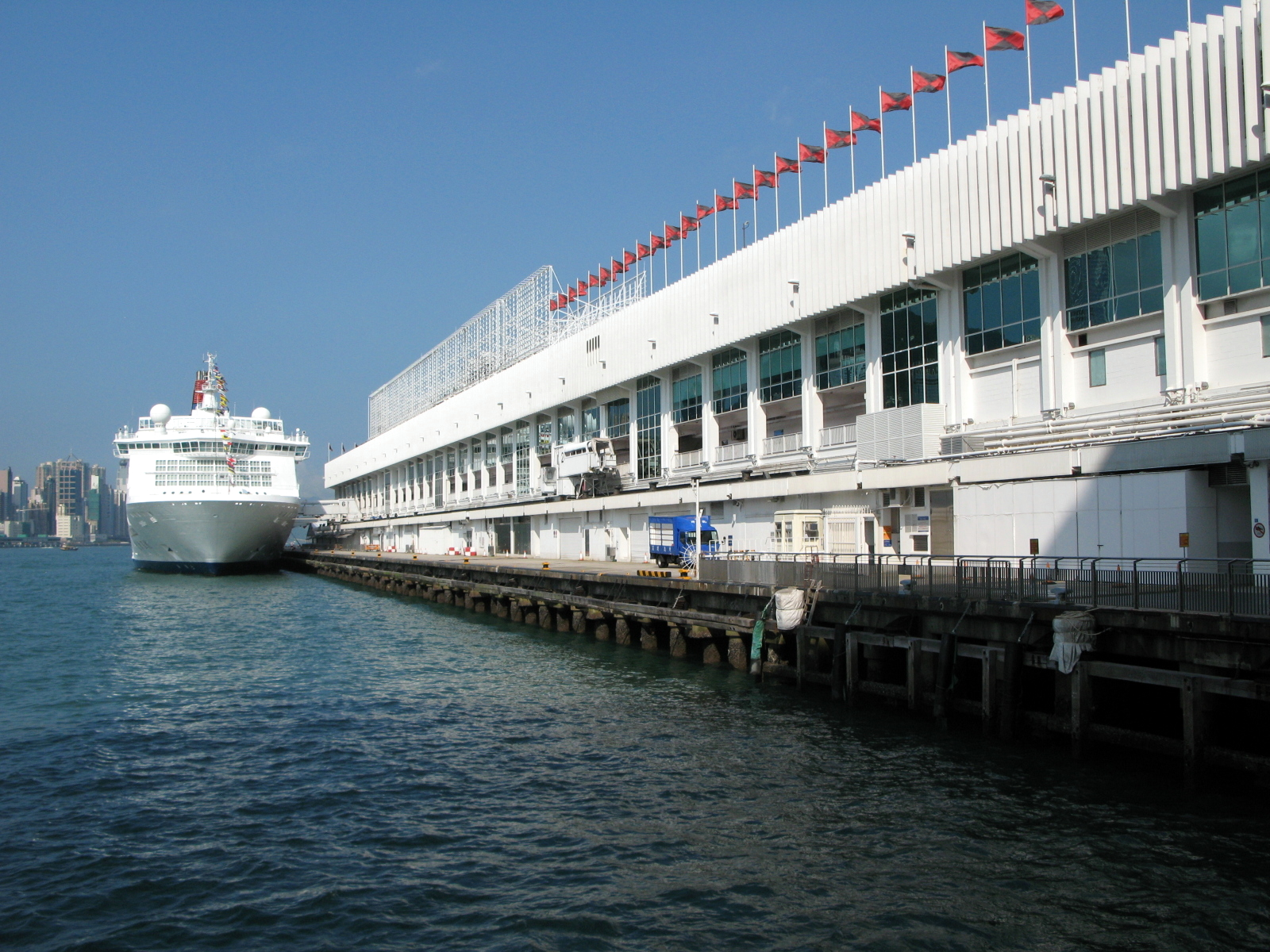 Ocean Terminal with cruise 2008 海運大廈